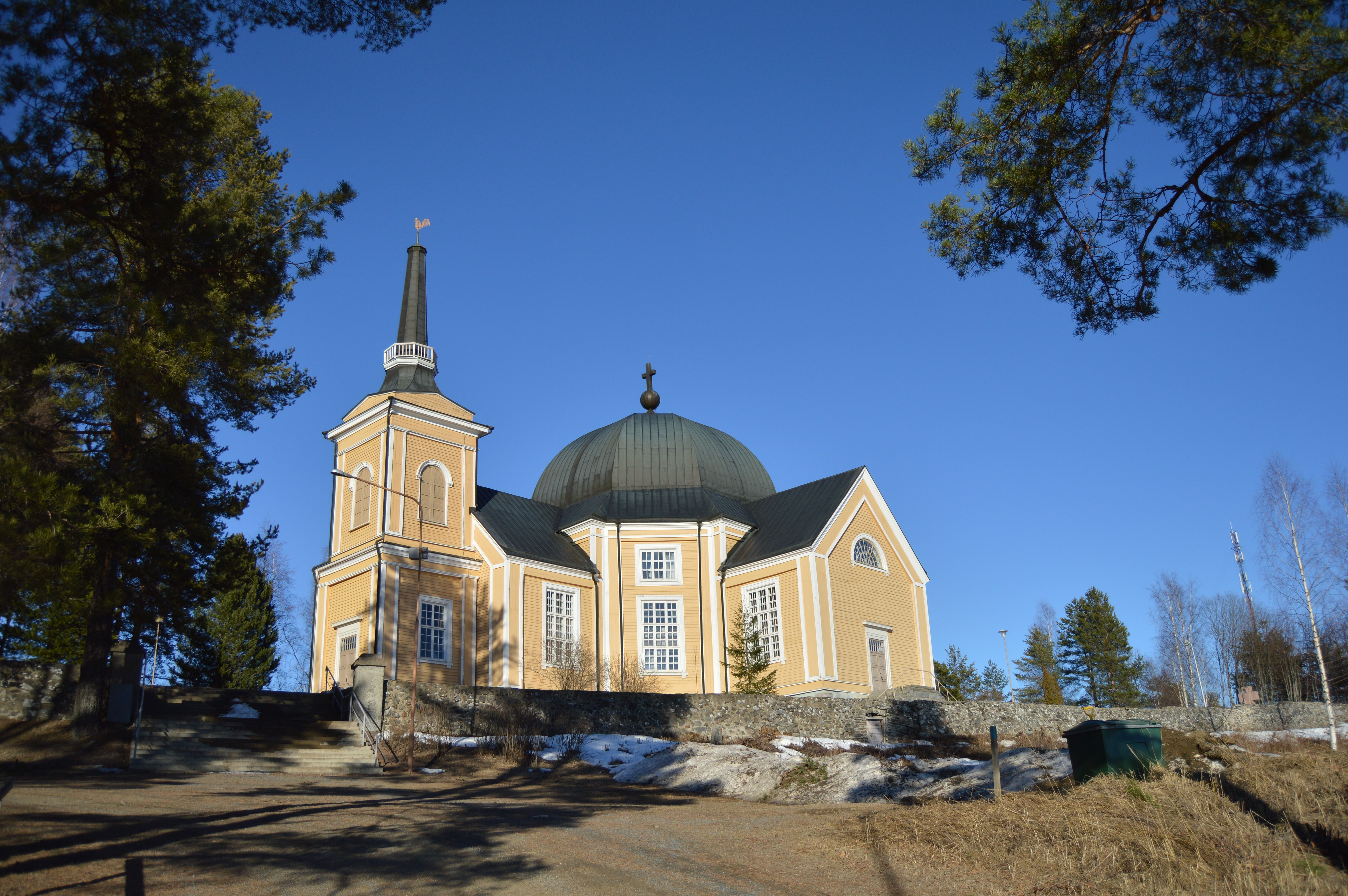 Rääkkylä Church in Northern Karelia, Finland, March 2015.